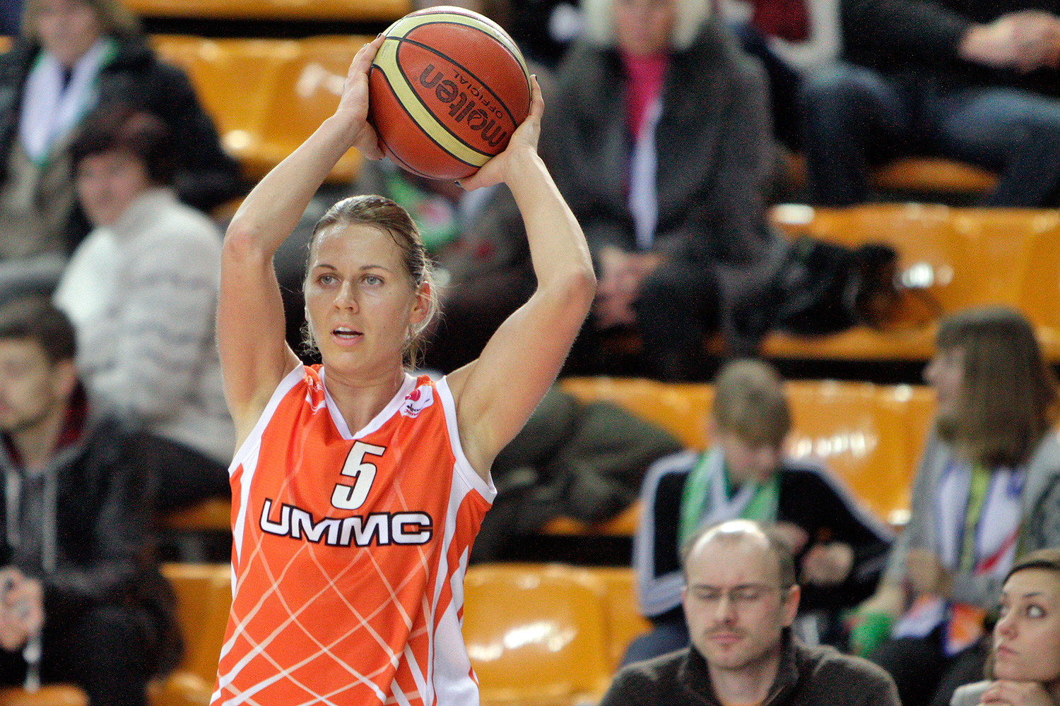 Basketball player Anete Jekabsone-Žogota